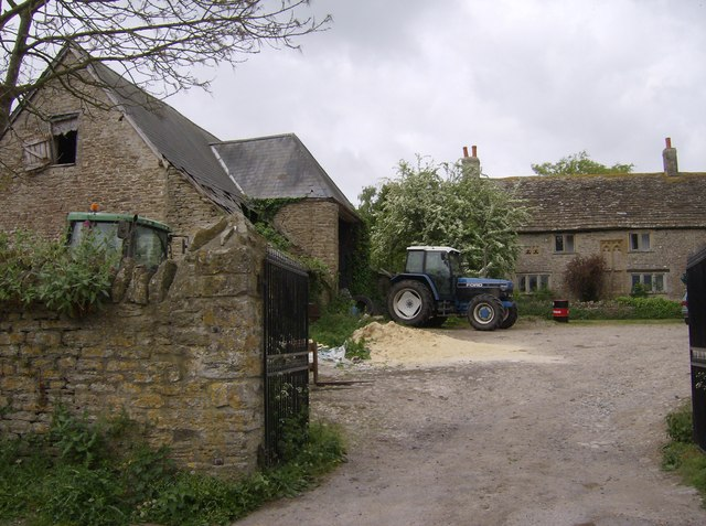 Upbury Farm, Church Street, Yetminster More typical buildings of this area with a small light stone.